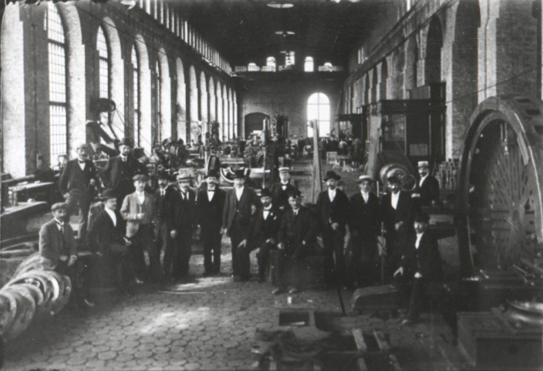 Volta plant authorities in assembly shop. 1903 year.